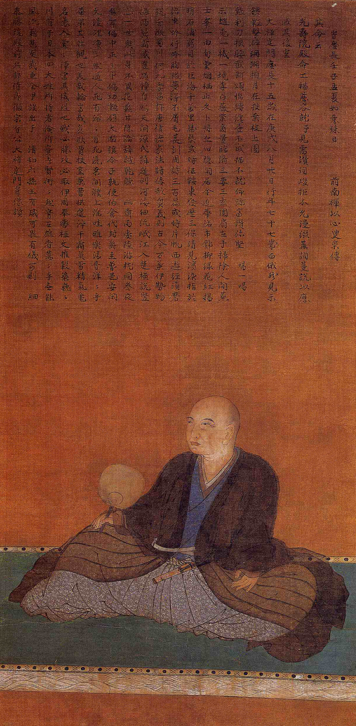 A Portrait of Yūsai Hosokawa, Colors on Silk with commentary by Sūden (1569–1633), 41" x 20"